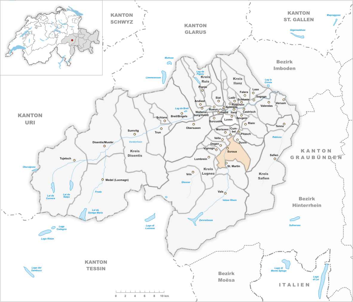 Municipality Suraua